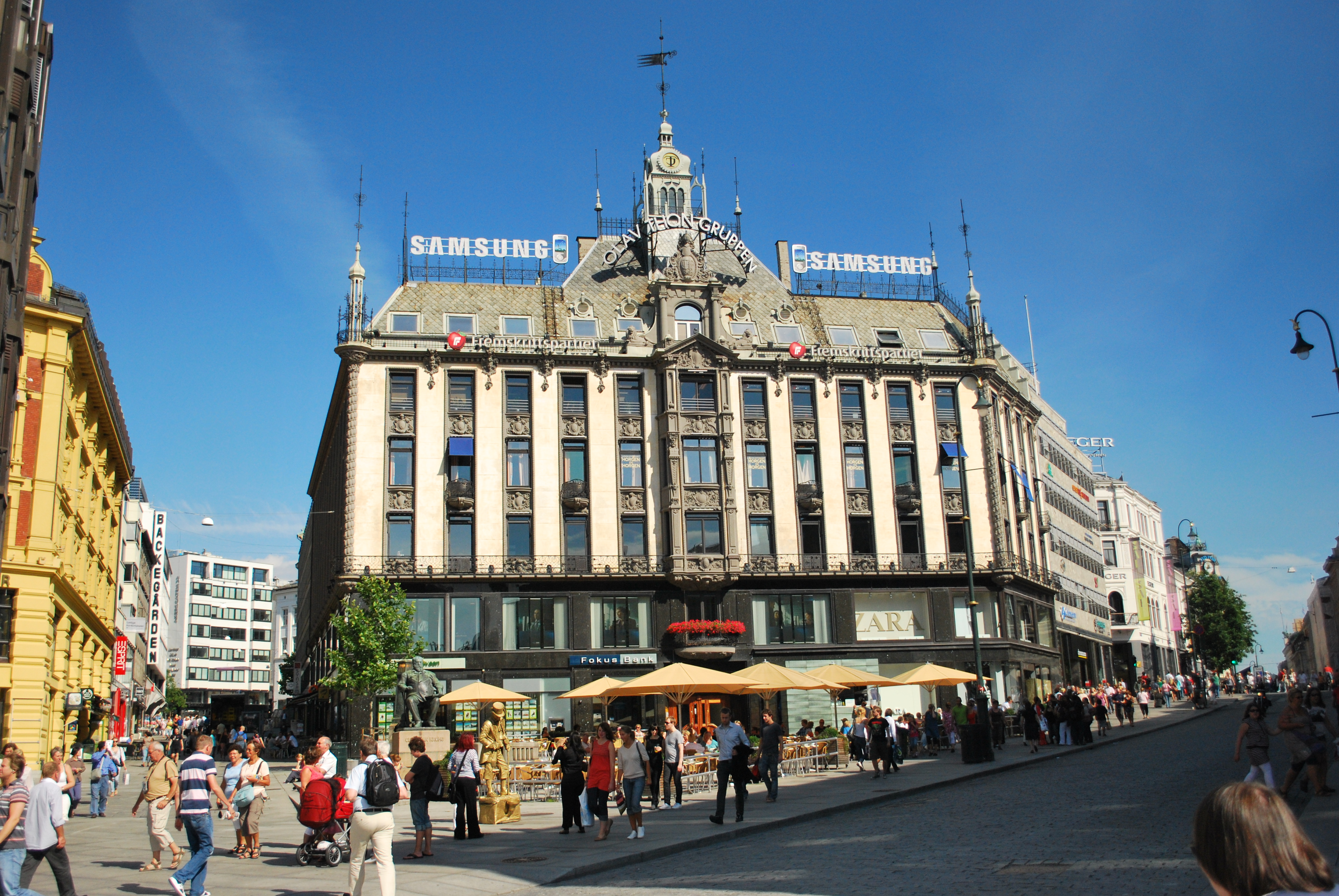 Tostrupgården, Stortings plass (square), Oslo